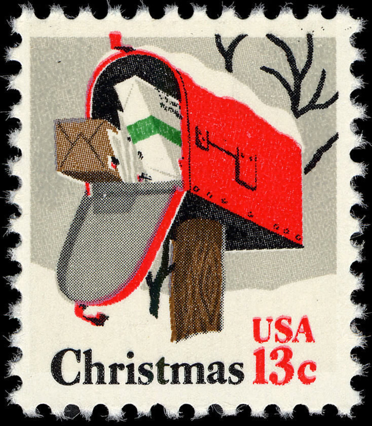 1977 13-cent U.S. Christmas postage stamp depicting a mail box issued on October 21, 1977